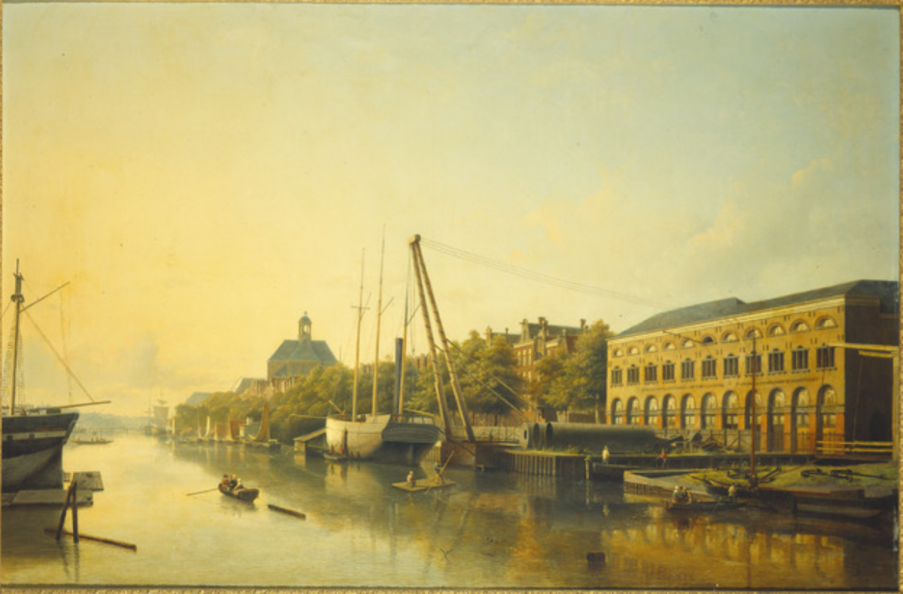 Painting of the Nieuwe Vaart in Amsterdam showing the Factory of Van Vlissingen and Dudok van Heel on the right. The building still exists and has the words Koninklijke Fabriek van Stoom en andere Werktuigen on the front.